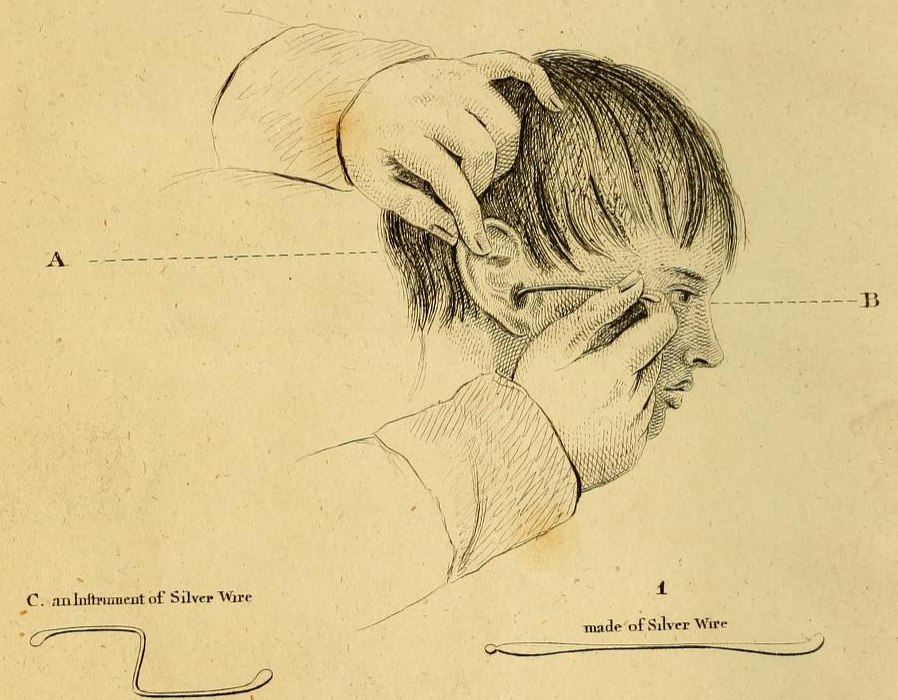 Illustration from William Wright's ((1773–1860)) book, An Essay on the Human Ear, published London, in 1817